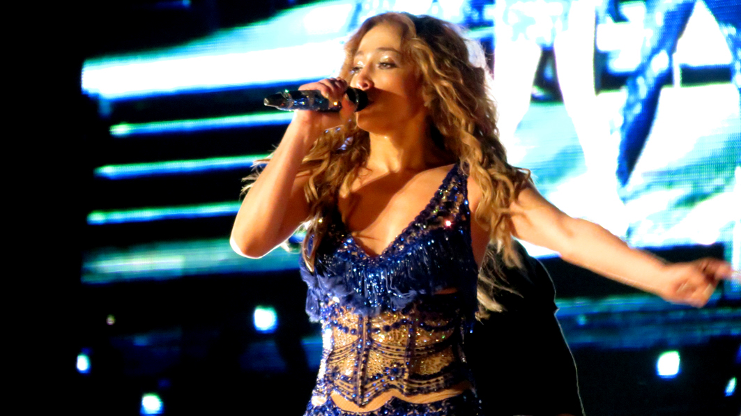 Jennifer Lopez live at the Pop Music Festival in São Paulo, Brazil.